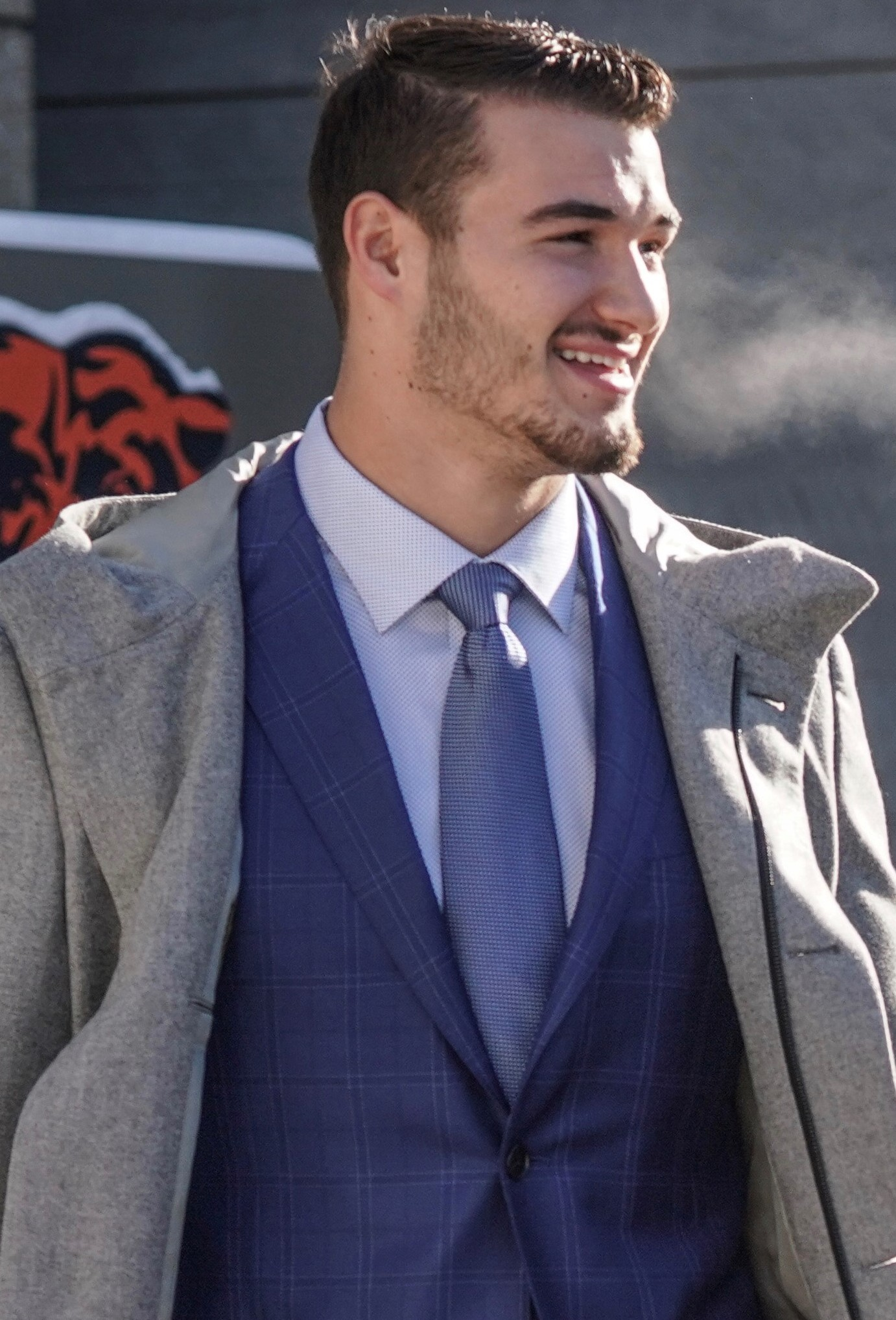 Trubisky at Halas Hall in Lake Forest, Ill. boarding team bus on December 30, 2017. (Picture credit: Cameron Good//Chicago Bears.